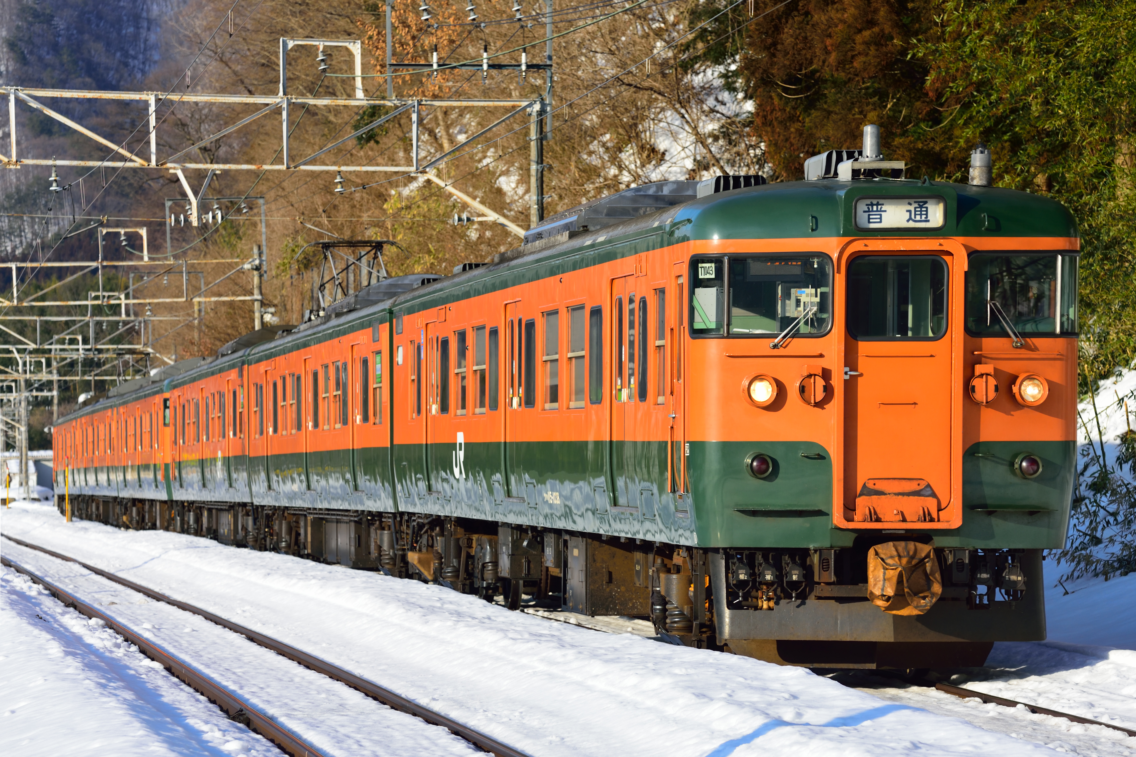 JR East 115-1000 series three-car EMU set T1043 leading a six-car formation on the Joetsu Line between Kamimoku and Gokan stations